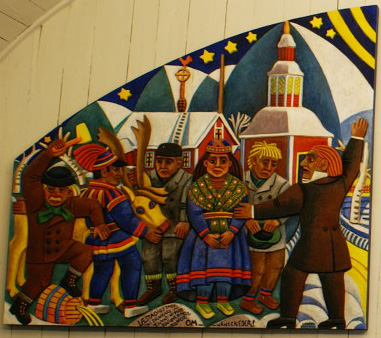 The left wing of the altar piece in Jukkasjärvi church, made by Bror Hjorth, shows preacher Lars Levi Læstadius talking to the people. One repenting sinner is breaking a barrel of vodka, whild another is giving back a stolen reindeer.